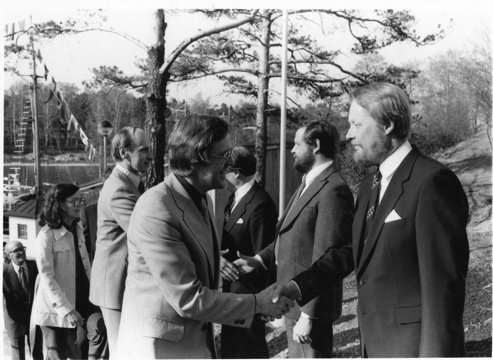 Photograph of the Finnish minister of culture Kalevi Kivistö (left) and the archaeologist Torsten Edgren (right) at the opening of the Finnish Maritime Museum in Helsinki.